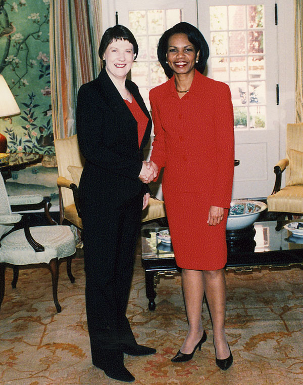 Secretary Rice meets with The Right Honorable Helen Clark, P.C., Prime Minister of New Zealand, at Blair House.